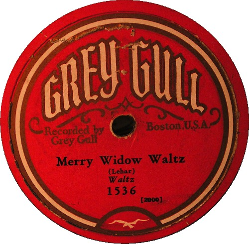 Label of a Grey Gull record, 1920s or early 1930s.